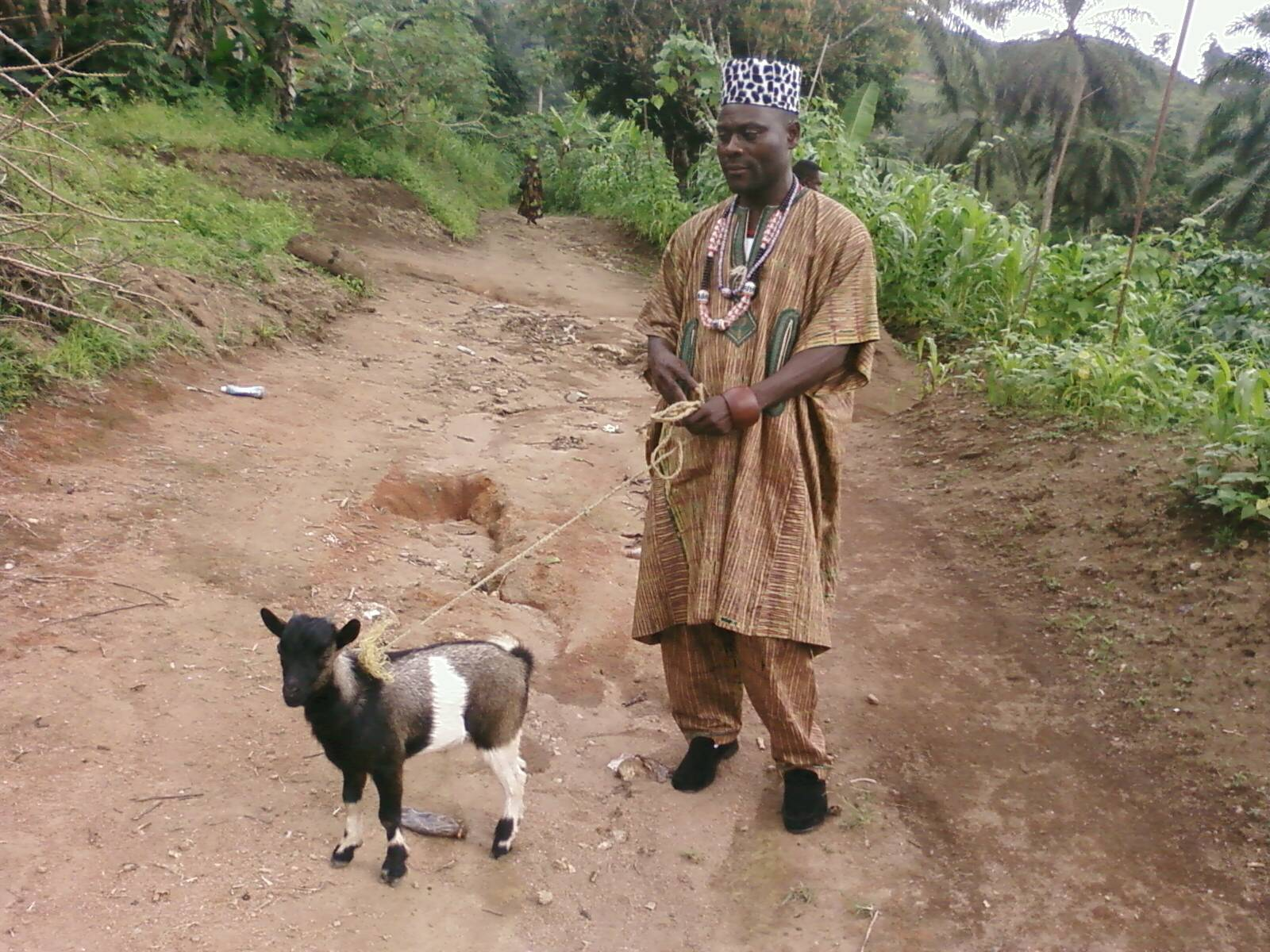 Ngemba traditional regalia from North West Region, Cameroon This is an image of Cultural Fashion or Adornment from Cameroon